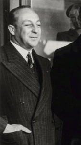 Sir Allen Fairhall and Sir Richard Casey (out of shot) at Newcastle Railway station during the 1949 Australian Federal election.